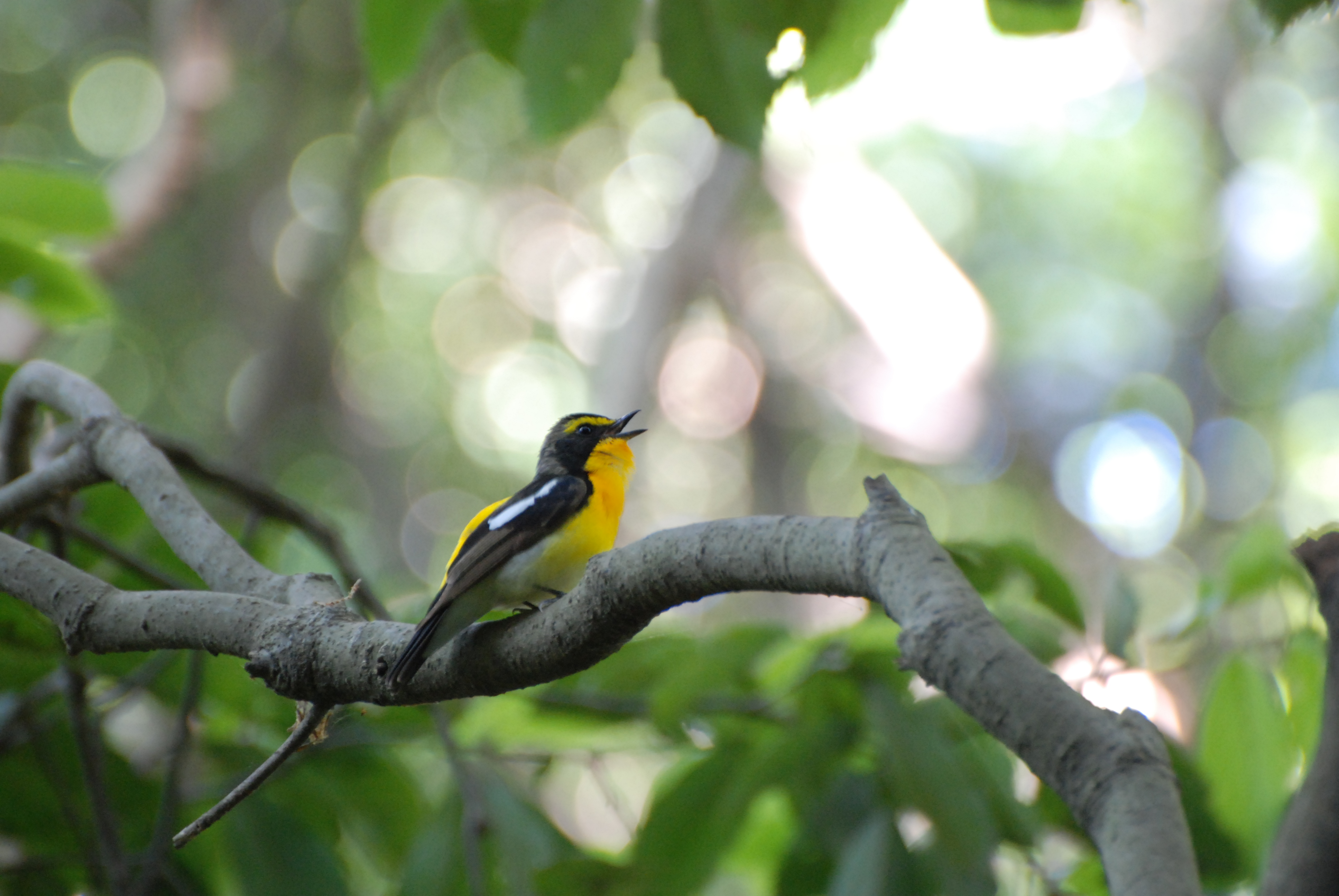 Narcissus Flycatcher (キビタキ, Ficedula narcissina) at Expo Memorial Park, Osaka, Japan.